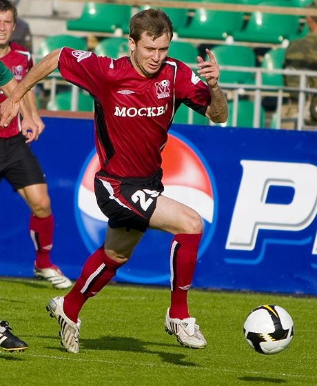 Igor Strelkov in action for FC Moscow